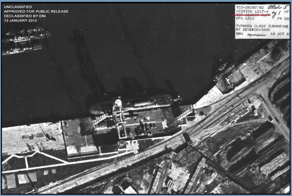 Satelite image of a Typhoon Class Submarine Severodvinsk. Declassified in 2012